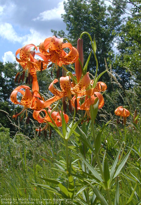 Lilium michiganense